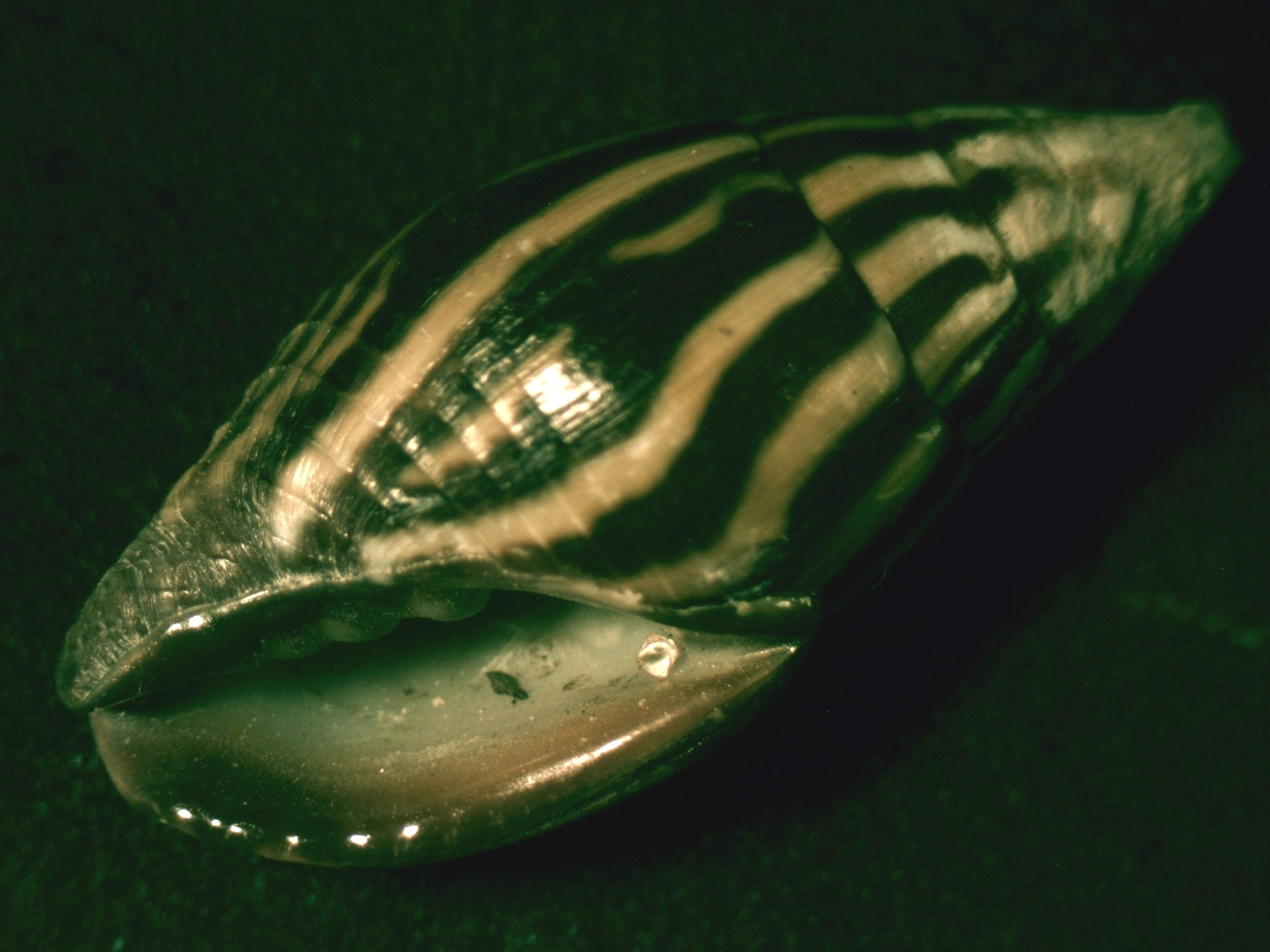 Mitra (Strigatella) paupercula (Linnaeus, 1758) (syn.: Mitra zebra); a miter snail from the family Mitridae; Philippines